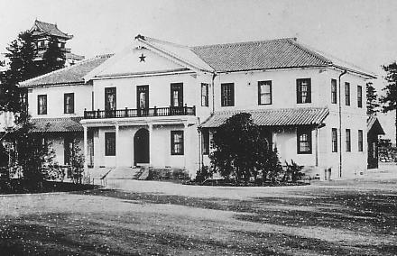 Hiroshima Chindai(Garrison) Headquarters